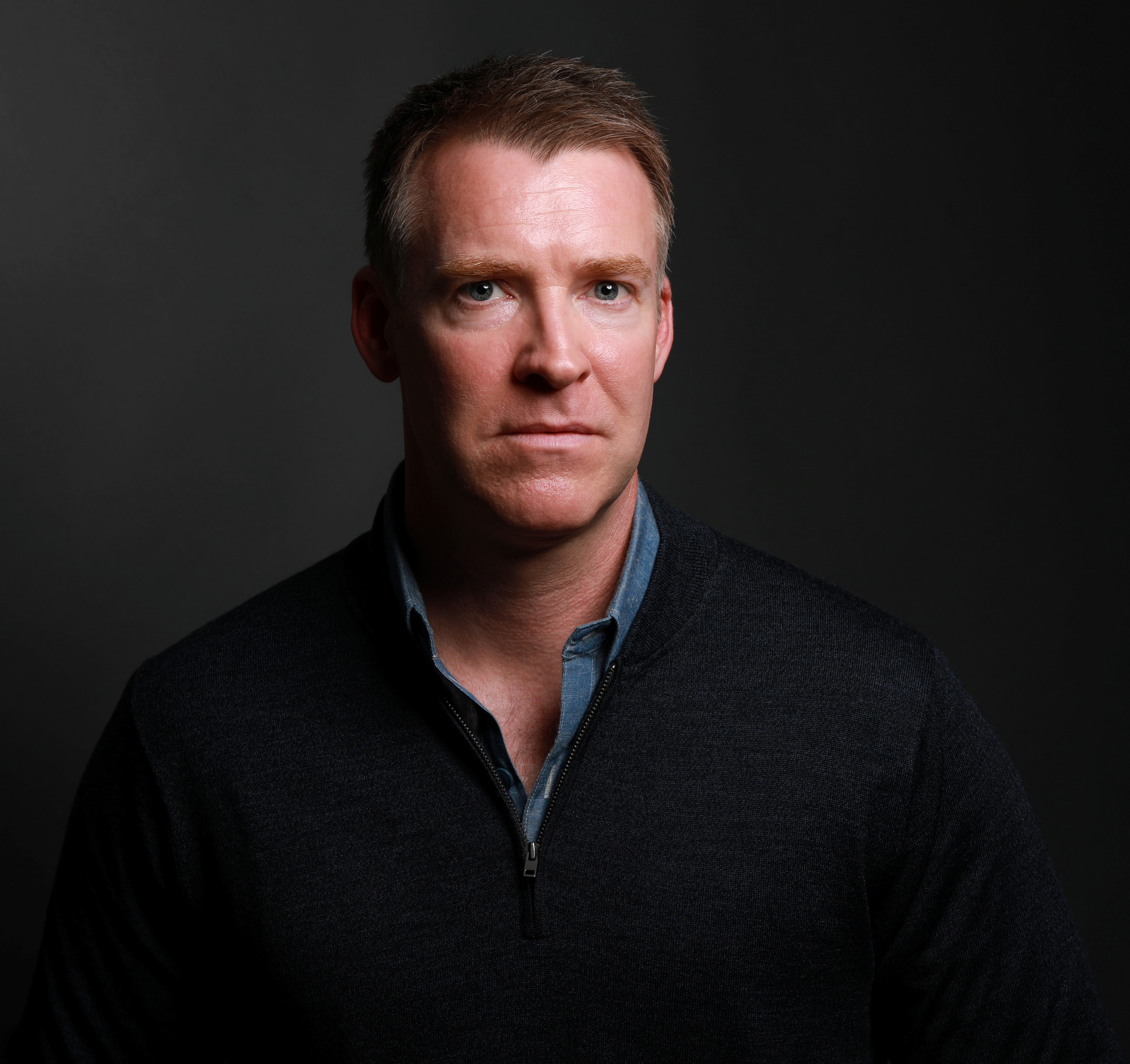 Brian Hutchison